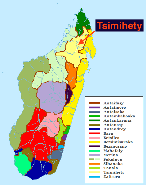 One of the largest ethnic groups in Madagascar, Africa Derivative work on the following image: File:Ethnic groups of Madagascar Map.png